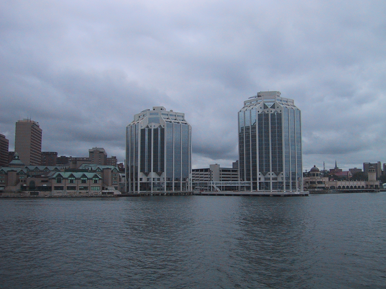 Halifax, Nova Scotia. Buildings in foreground may be Purdy's Wharf (uncertain)